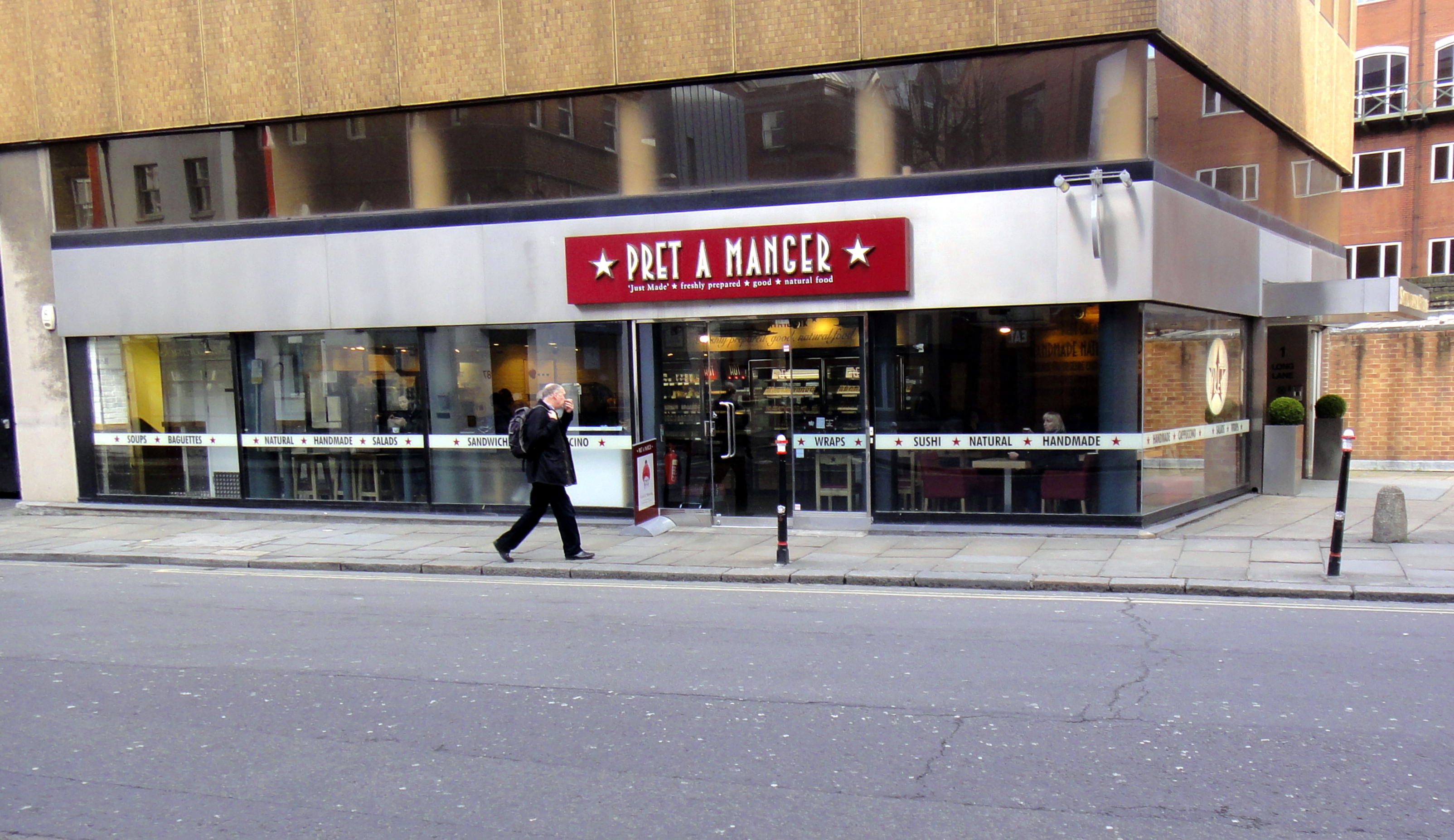 Pret A Manger, 1 Long Lane, City of London EC1, close to Smithfield market